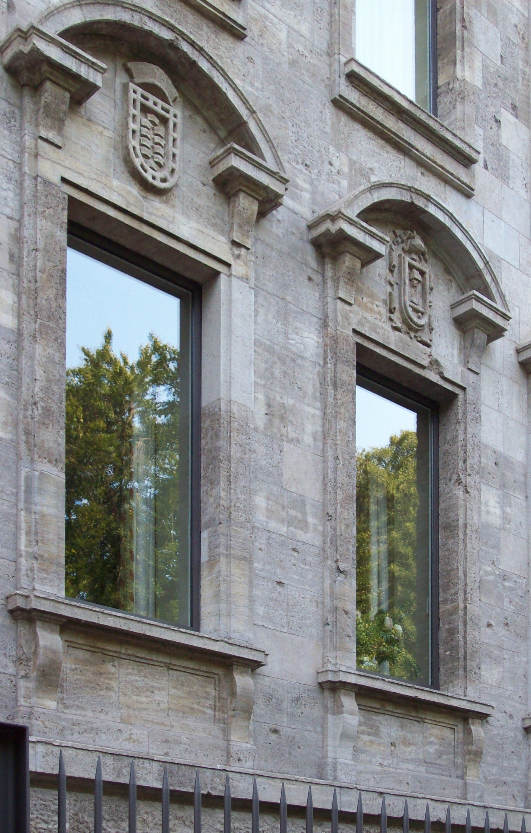 Emassy of Spain in Berlin Detail:Old Windows